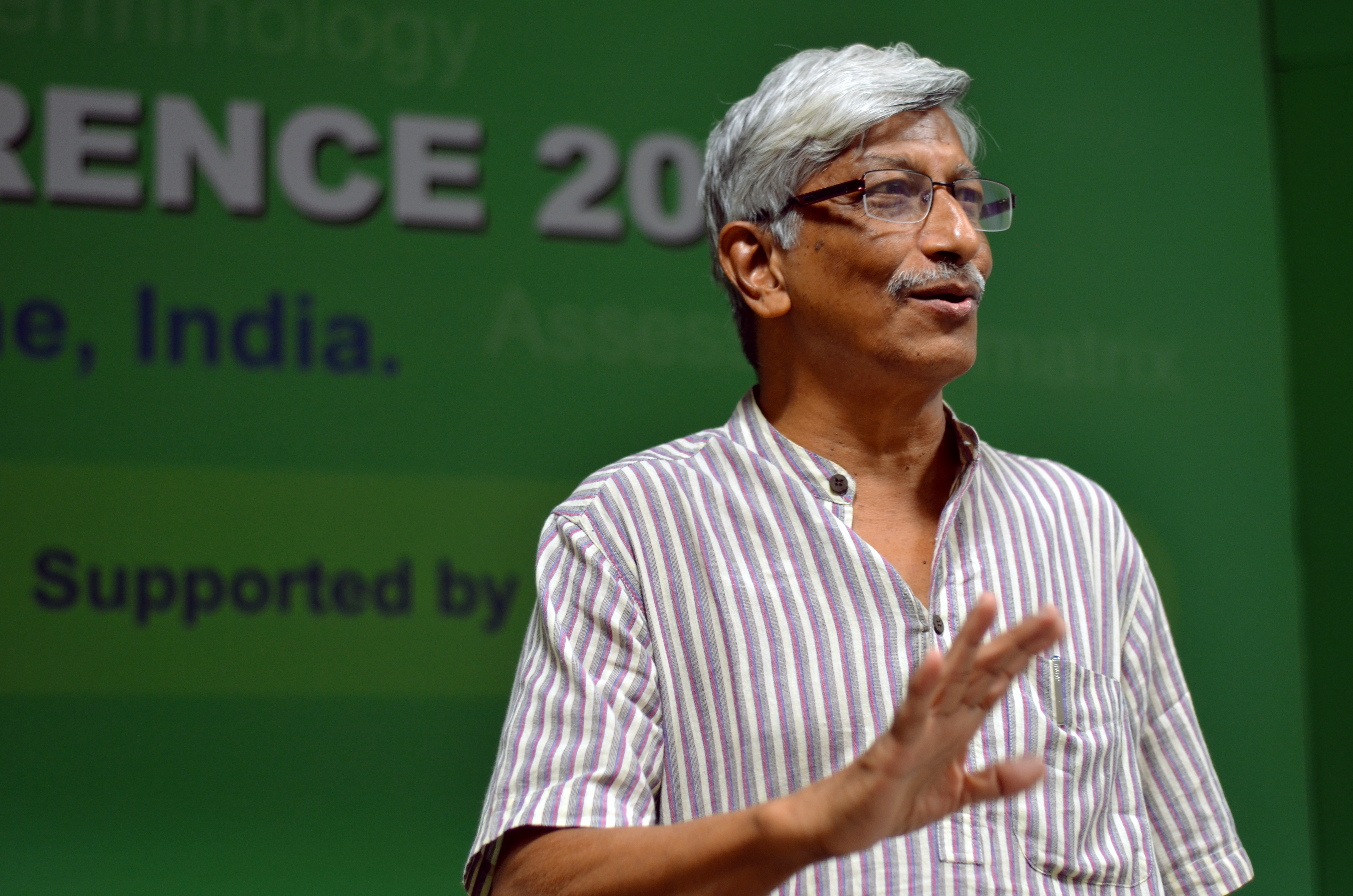 Nikhil Mohan Pattnaik is a noted South Asian scientist, science researcher and writer from the Indian state of Odisha. This image was shot during his talk FUEL GILT Conference 2014, Pune.ଓଡ଼ିଆ: ନିଖିଳ ମୋହନ ପଟ୍ଟନାୟକ ଜଣେ ଜଣାଶୁଣା ଦକ୍ଷିଣ ଏସୀୟ ବୈଜ୍ଞାନିକ, ବିଜ୍ଞାନ ଗବେଷକ ଓ ଲେଖକ । ସେ ଓଡ଼ିଶାରେ ଜନ୍ମିତ । ଏହି ଛବିଟି ପୁଣେ ଠାରେ ହୋଇଥିବା ଫୁଏଲ ଗିଲ୍ଟ କନଫେରେନ୍ସ ୨୦୧୪ ରେ ଉତ୍ତୋଳିତ ।